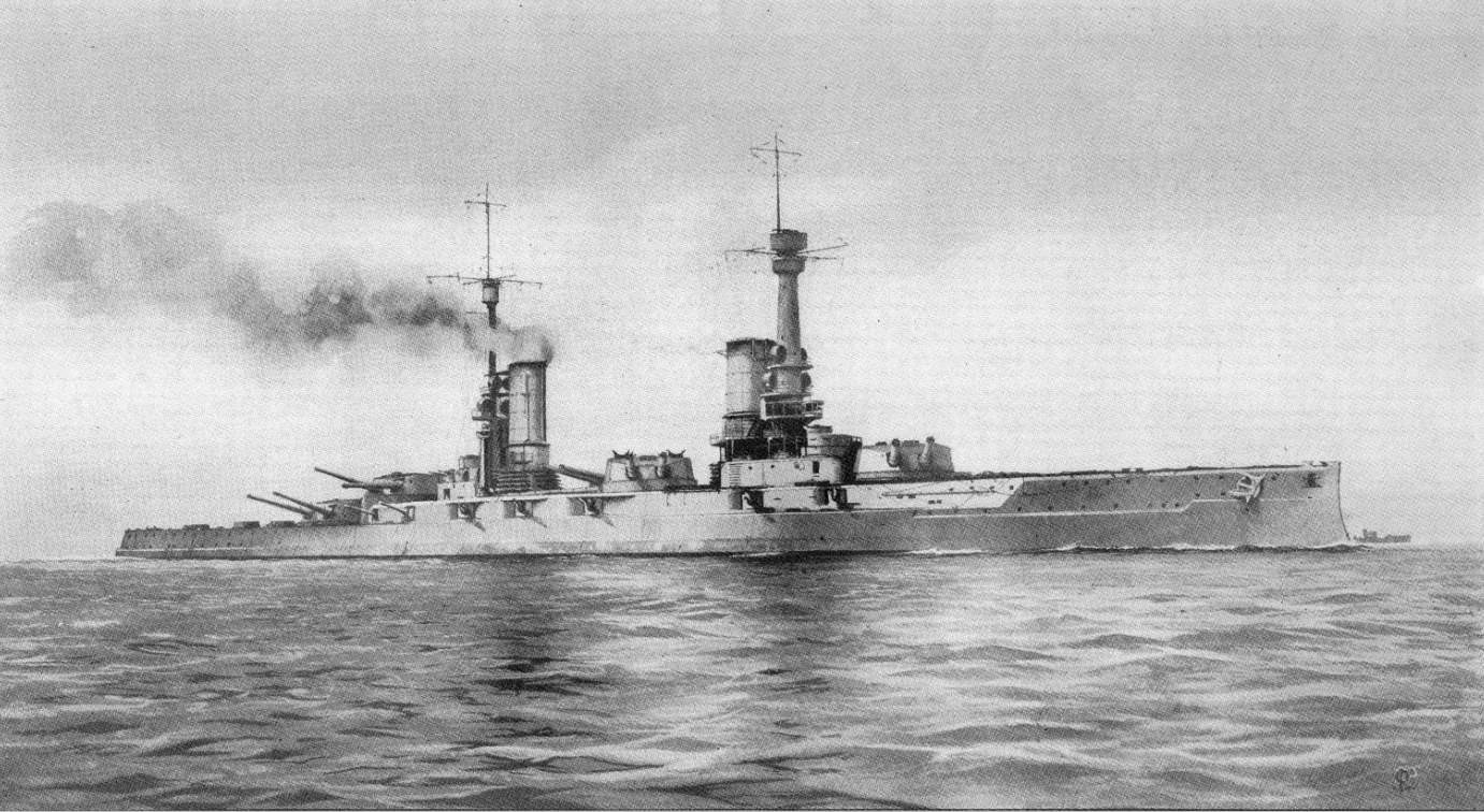 A recognition drawing of the German battleship Kaiser prepared by the Royal Navy's Intelligence department that was distributed to the fleet in 1918. The printing plates were also given to the United States Navy and also published in the US in 1918.